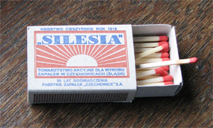 Match packet from Czechowice-Dziedzice(Poland) matches factory